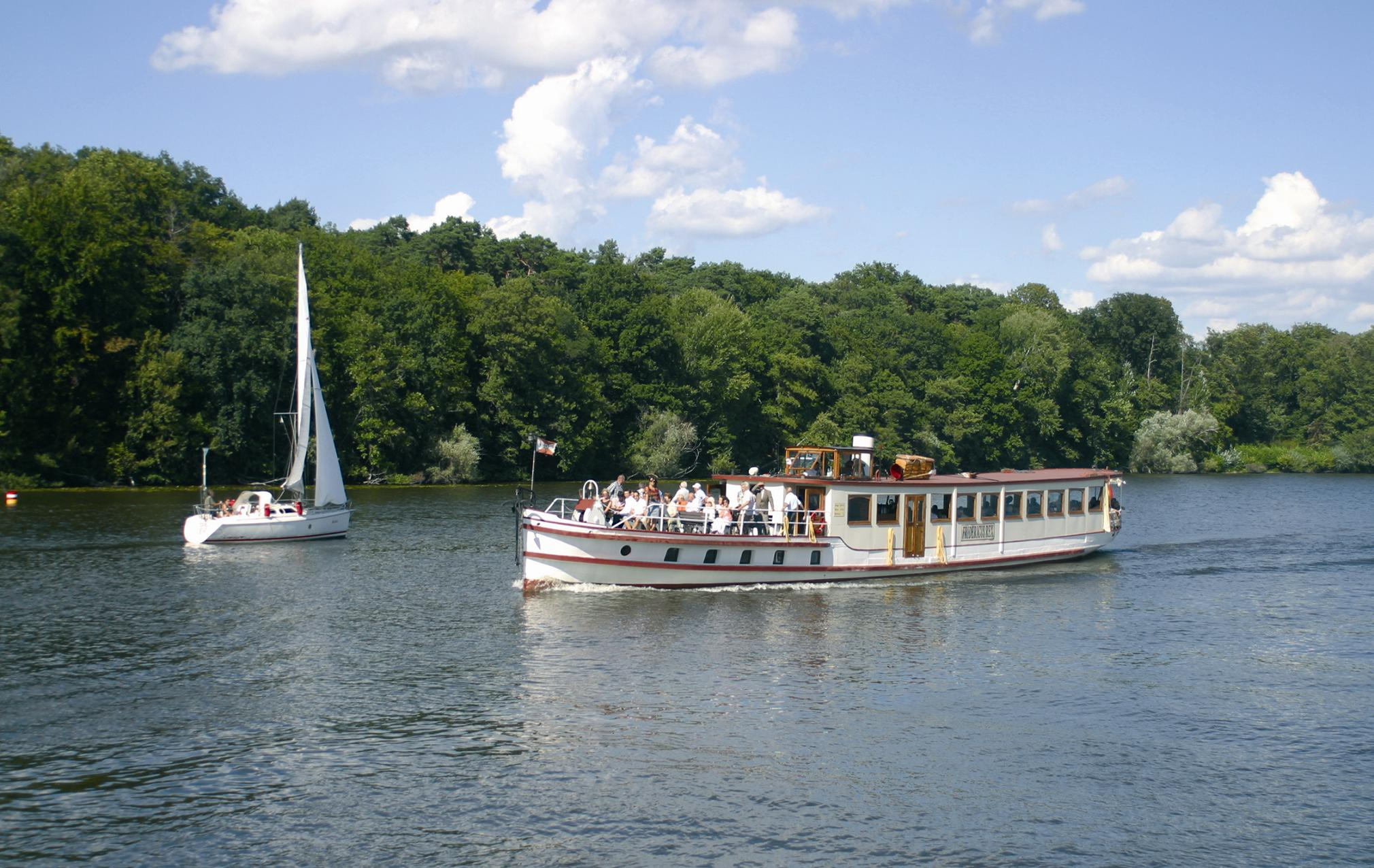 MV Fridericus Rex